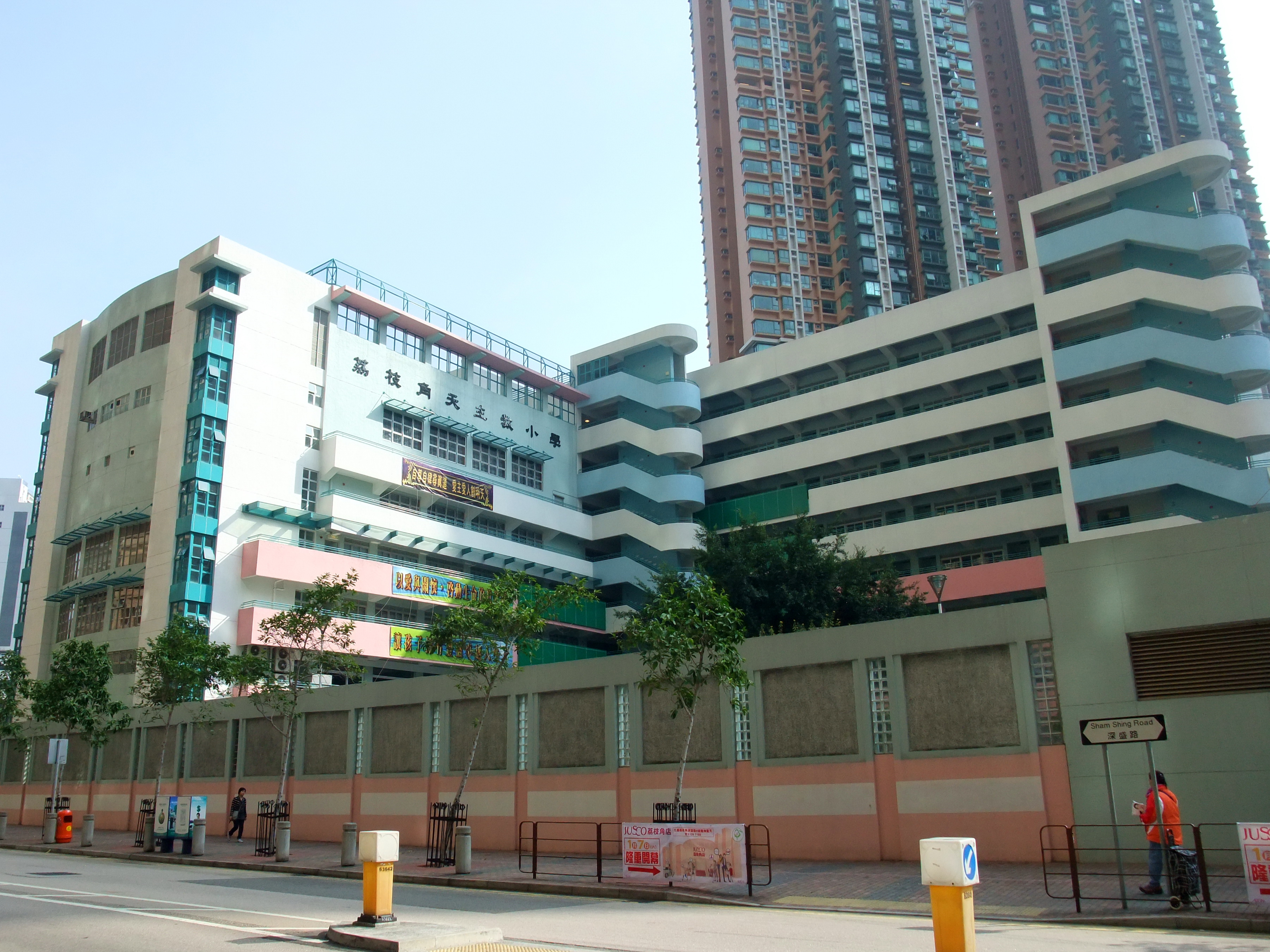 Laichikok Catholic Primary School, Sham Shui Po, Kowloon, Hong Kong.